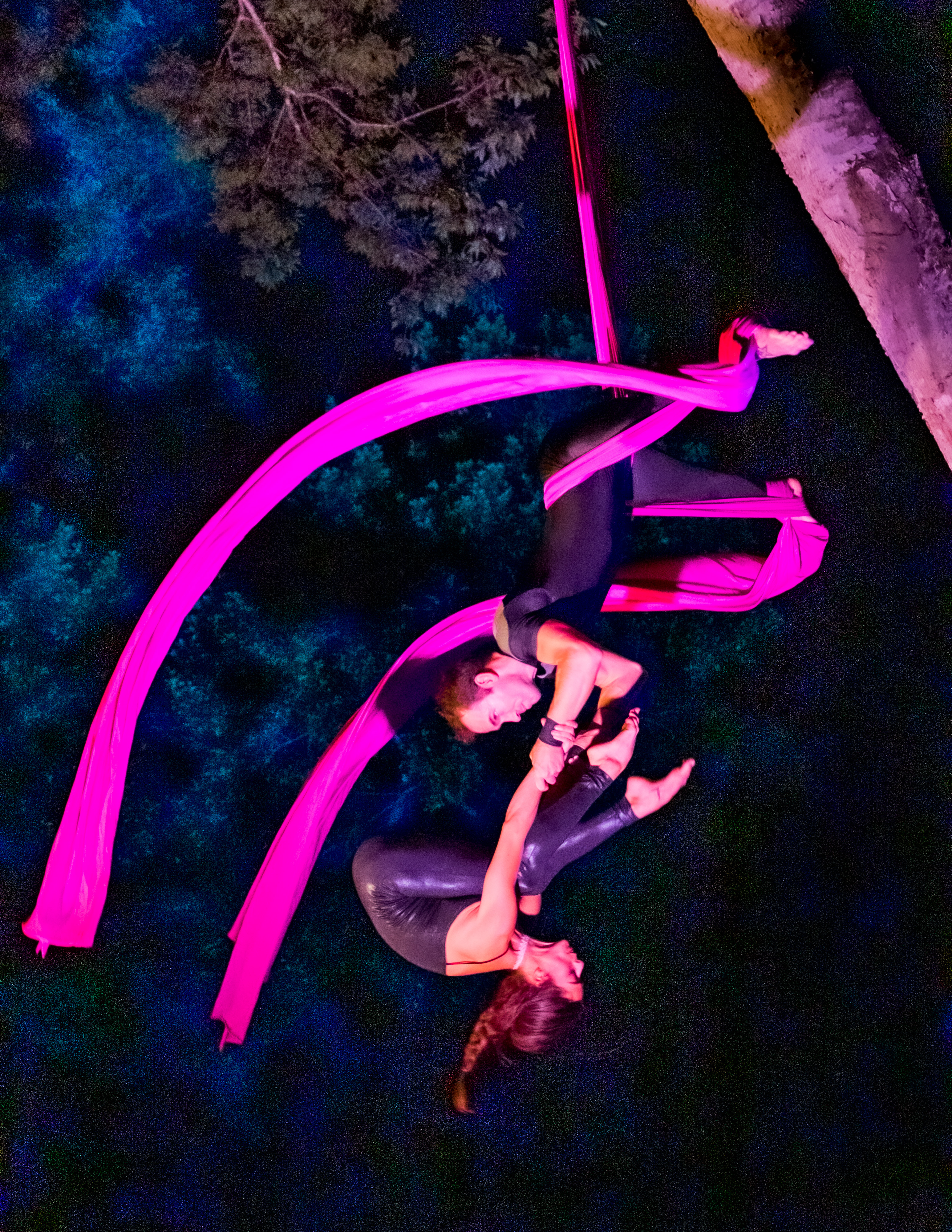 Blue Lapis Light "Cats and Bats" tech rehearsal in the trees at a private party in Austin, Texas, USA.